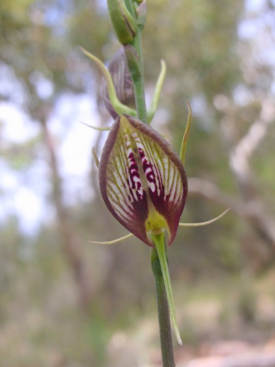 Wallaroo Track, Ku-ring-gai Chase National Park, Australia. Probably Cryptostylis erecta